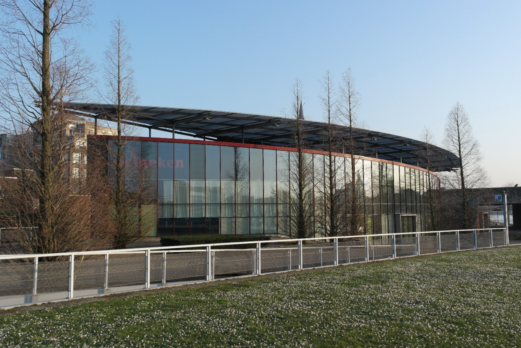 Maastricht, the Netherlands. View of Maastricht Music Hall in Griendpark in the quarter of Sint Maartenspoort.